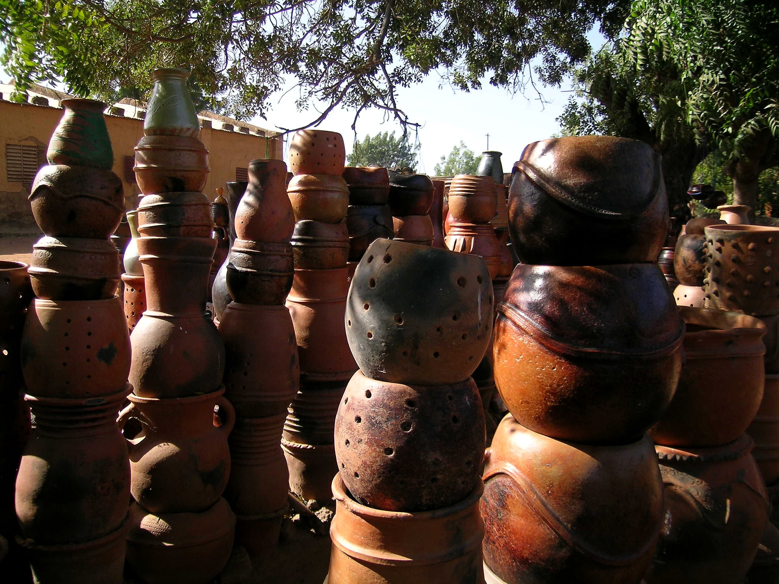 Pottery in Segou, Mali